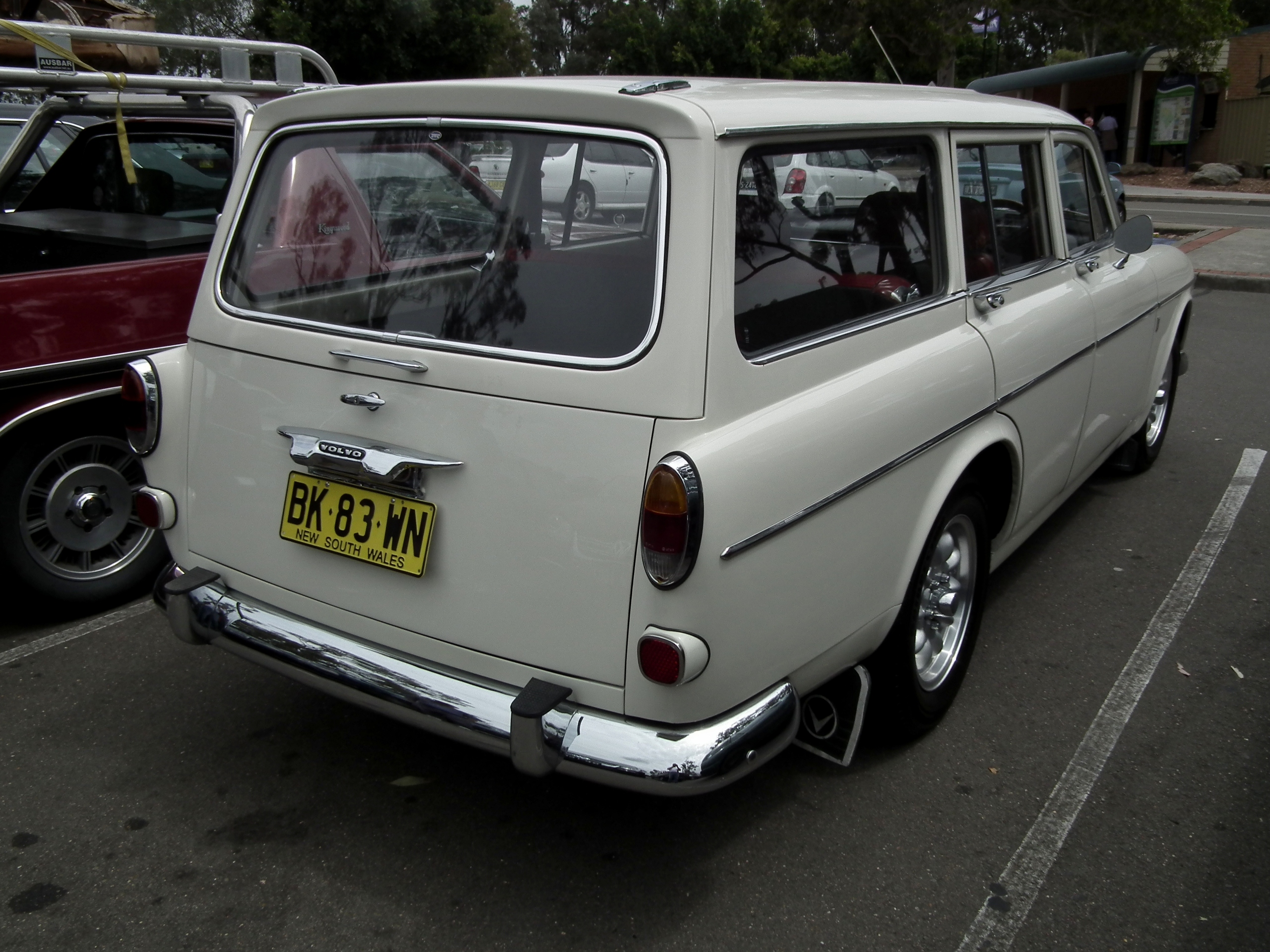 1968 Volvo 122 S station wagon. Taken in the car park at the 2012 New South Wales All Chrysler Day, held at Fairfield Showground, Prairiewood, Sydney.